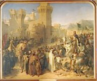 Conquest of Acre, 1191